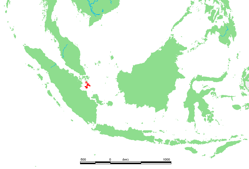 Location of Lingga Islands, Indonesia